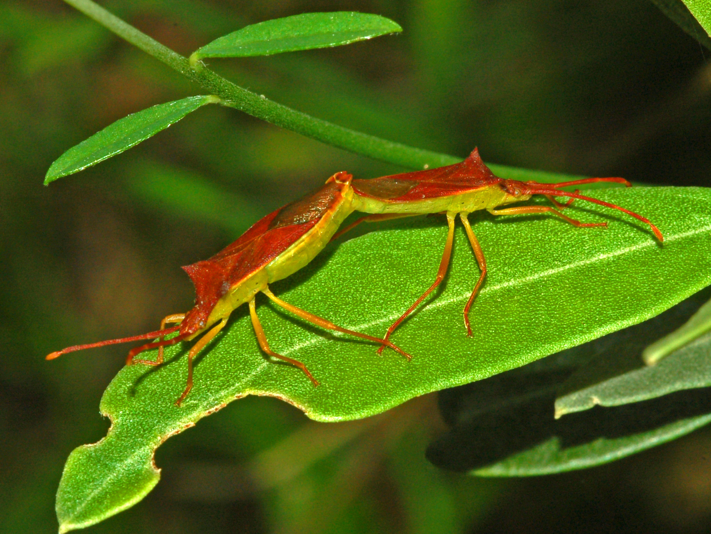 Mating pair of Gonocerus insidiator. gENOVA, iTALY